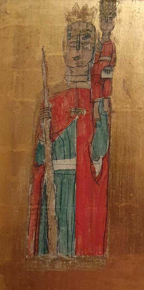 Alberto Magri - San Cristoforo